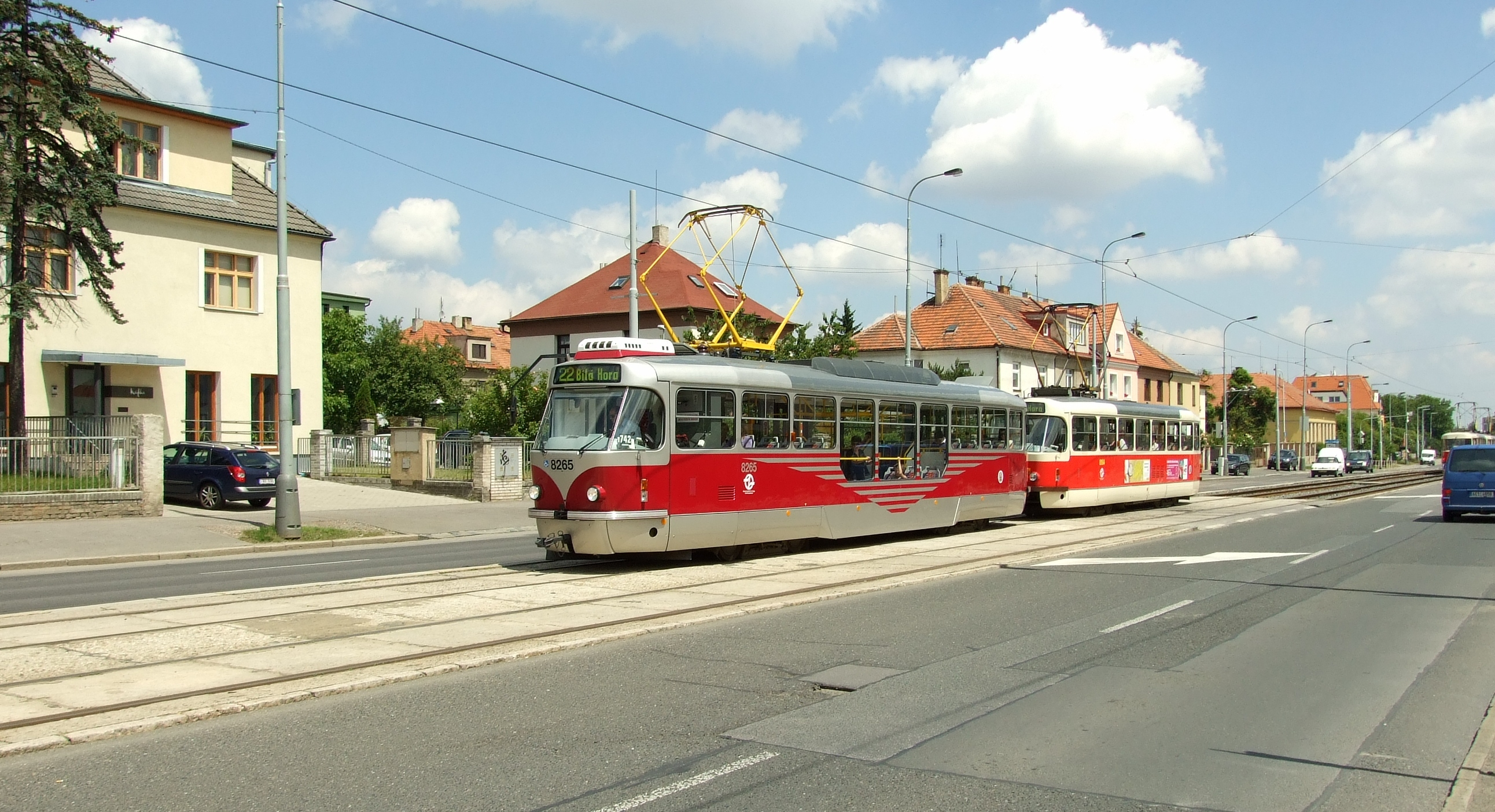 Břevnov, a part of Prague. Nature, houses and people of this part of Prague, CZ. Tram heading form Vypich to Bílá Hora on a track that was reconstructed in recent timehelp